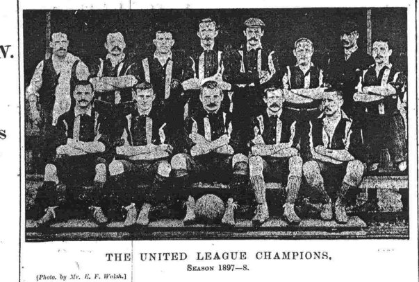 The Luton Town squad of 1897–98 which won the United League.